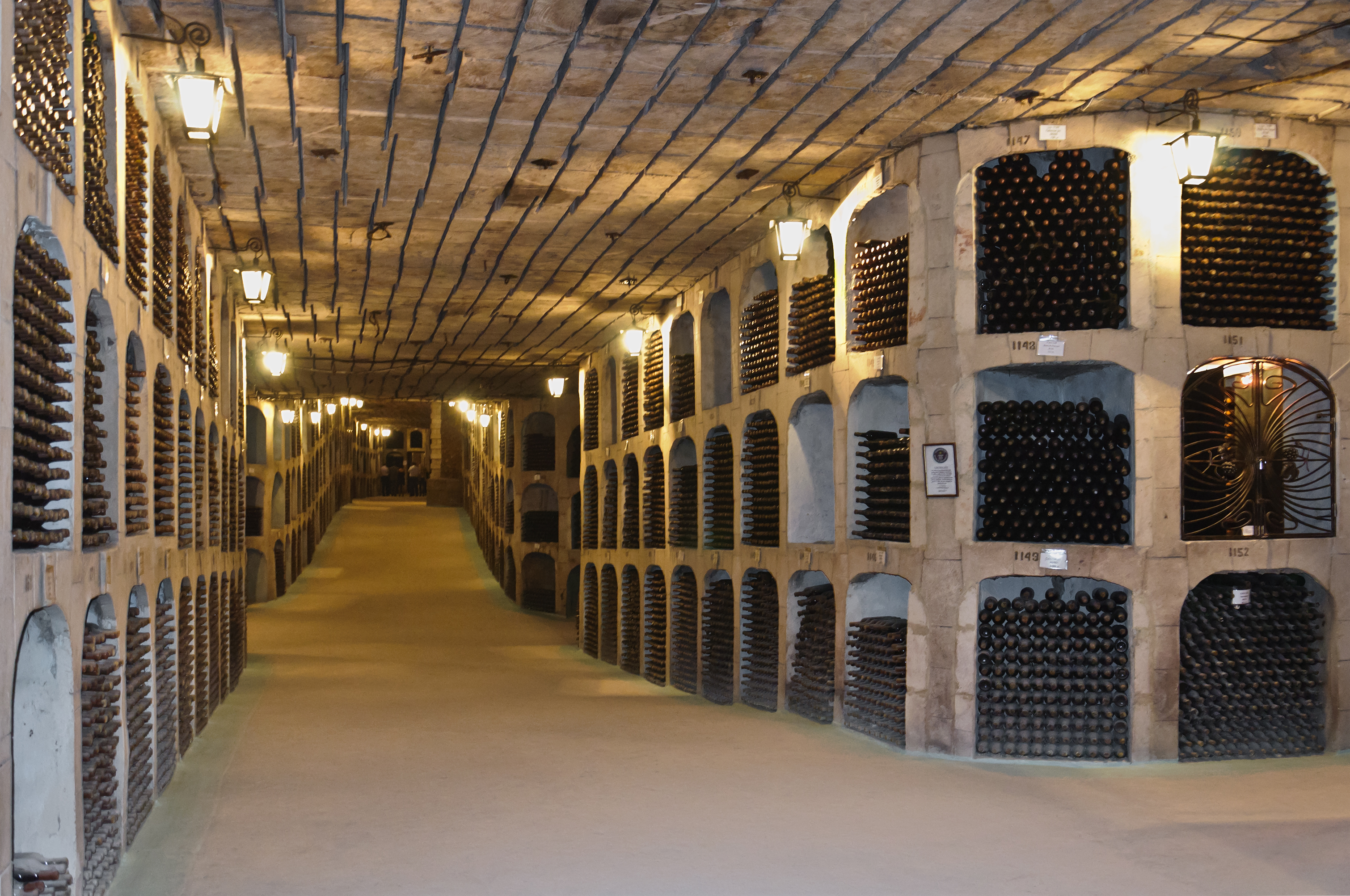 In the cellars of Milestii Mici winery, Moldova.